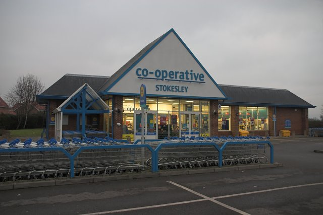 Co-op Supermarket in Stokesley